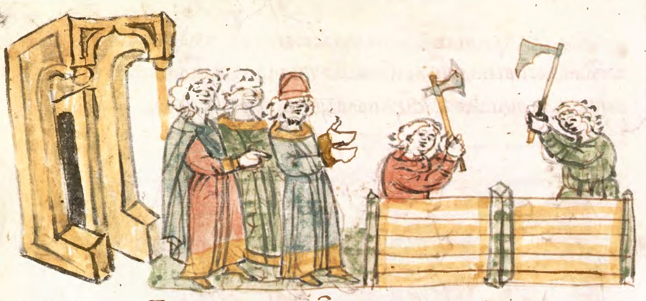 Grand Prince Mstyslav I Volodymyrovych builds the Pyrohoshcha Church of the Mother of God in Kyiv